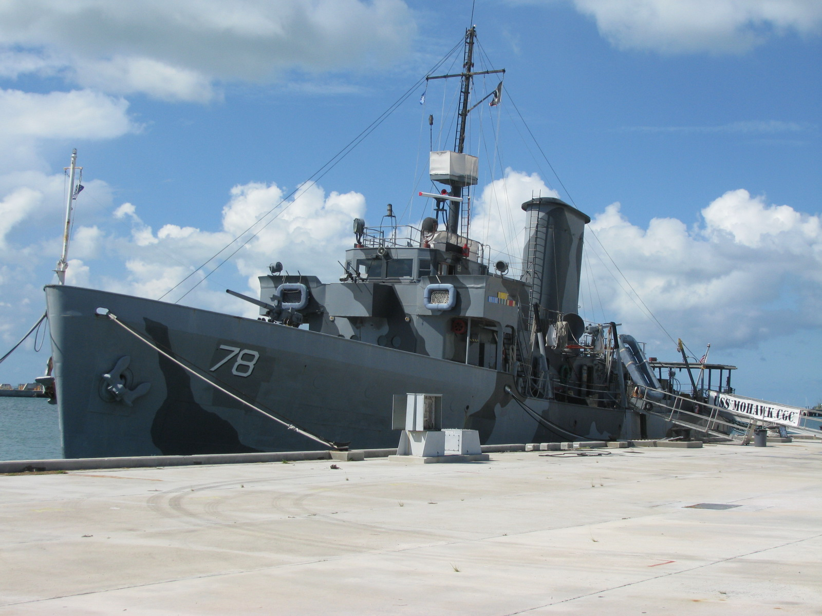 The ship is docked near Fort Zachary Taylor in Key West, Florida and forms the USS Mohawk CGC Memorial Museum.